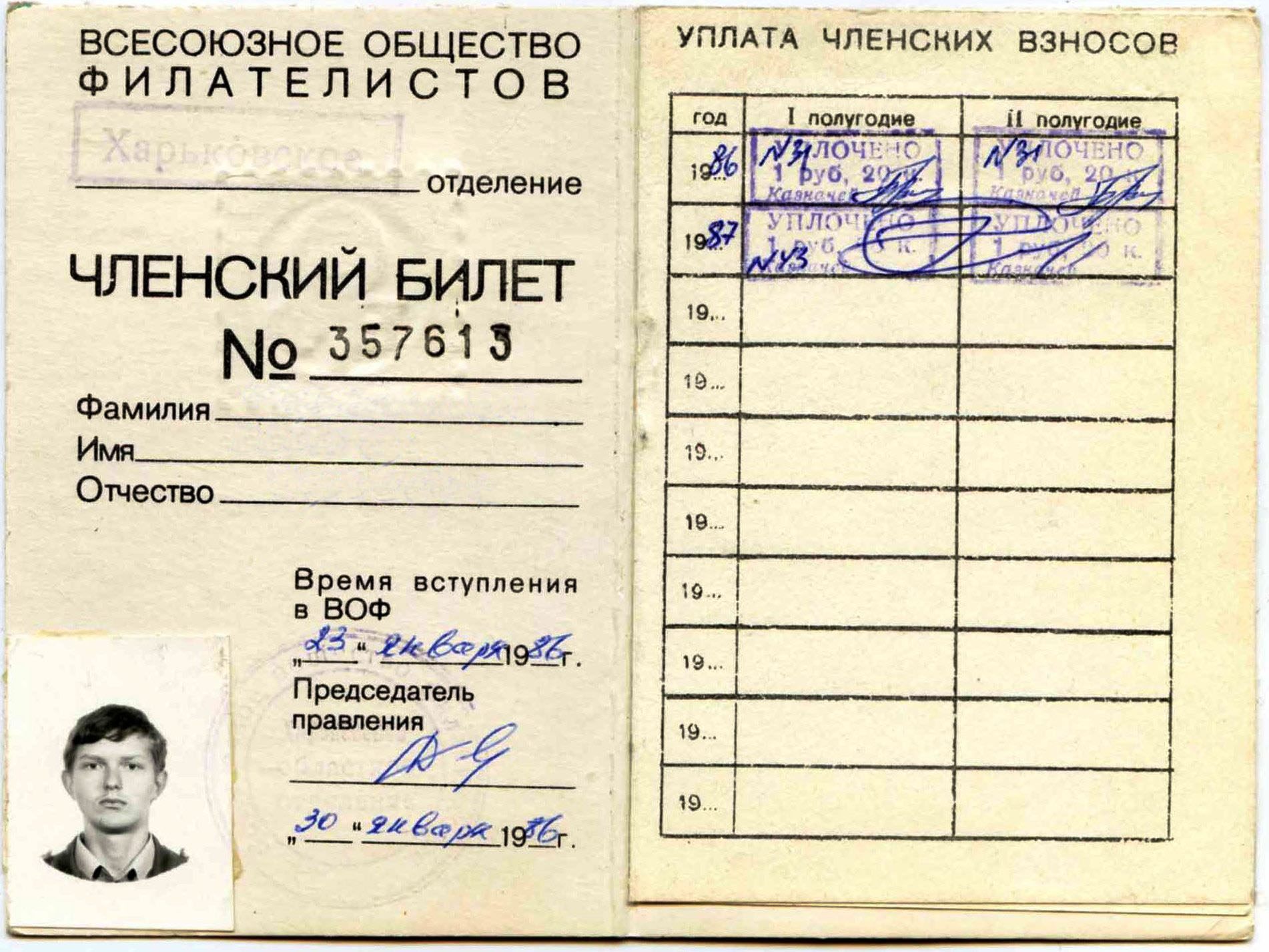 A membership card of the All-Union Philatelic Society, Kharkov Branch, 1986.